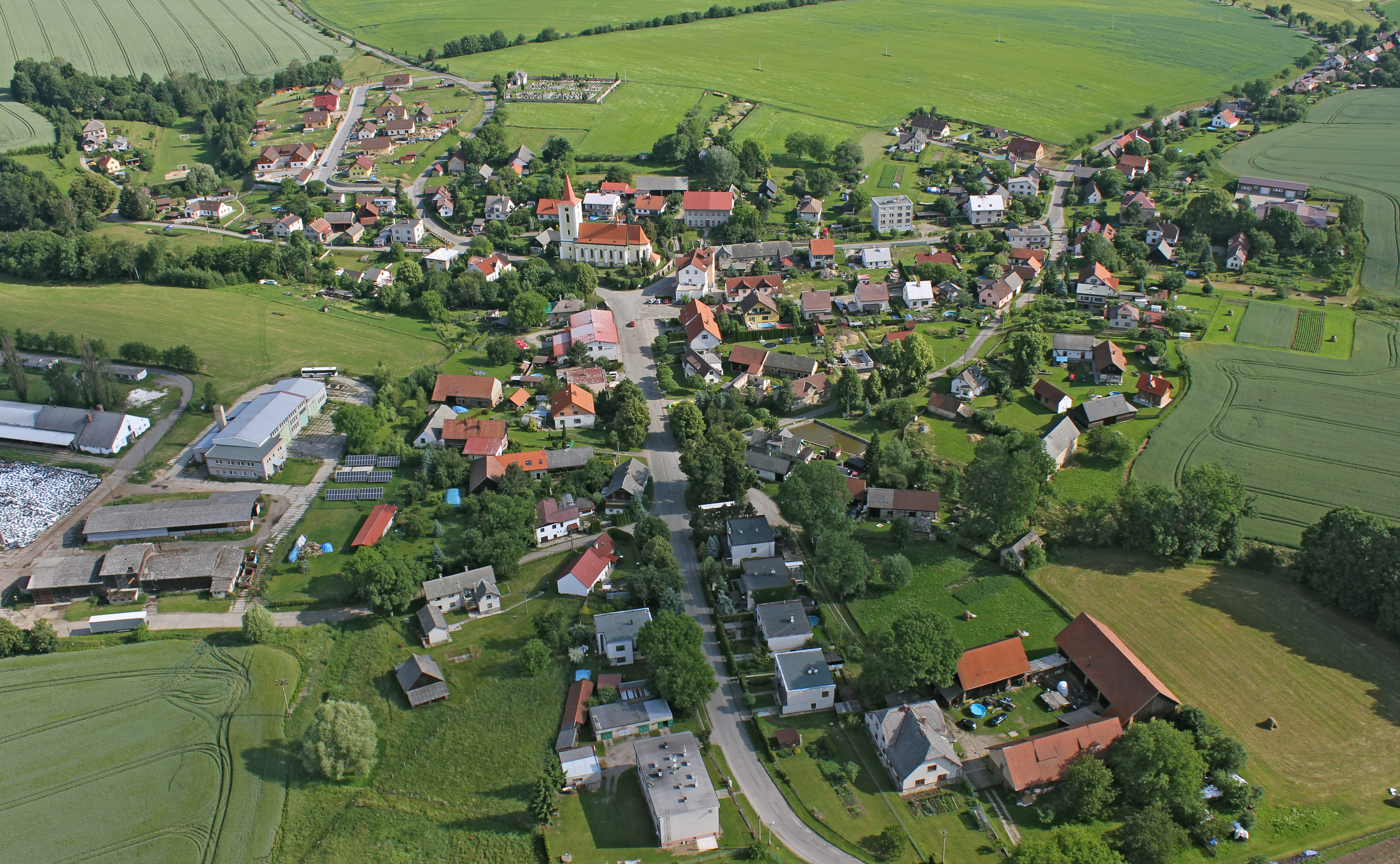 aerial photo